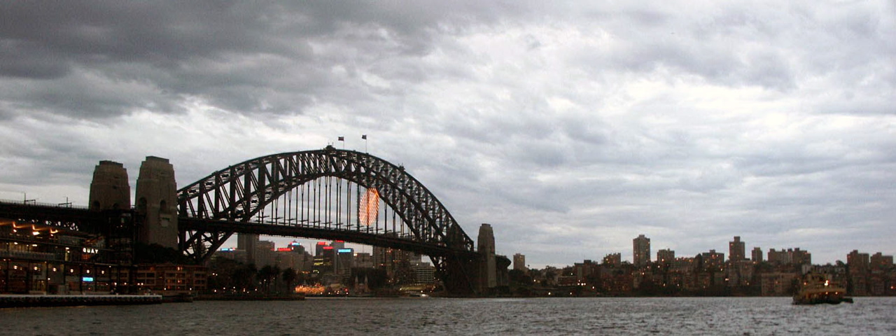 The Sydney Harbour during the 2003 Rugby World Cup (logo on bridge)